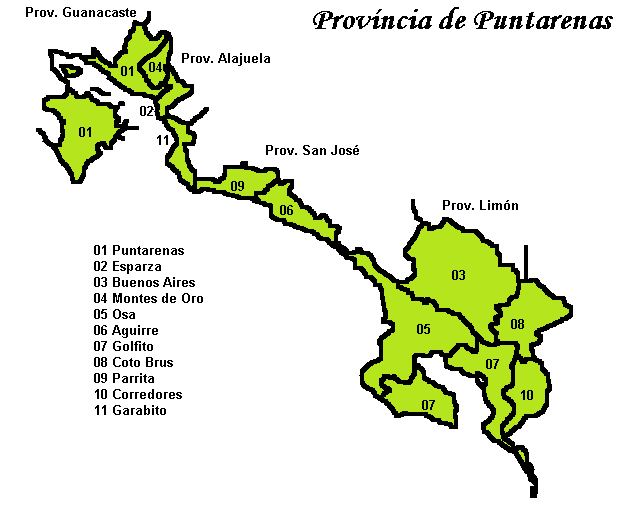 Map of the Cantons of the Province of Puntarenas (Costa Rica)